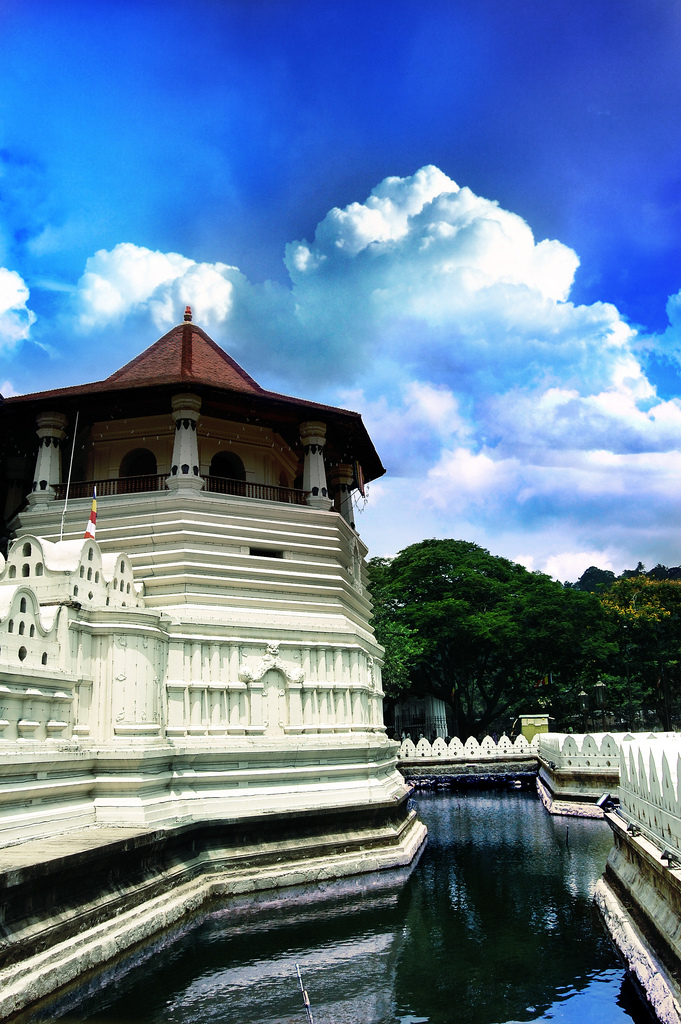 Kandy